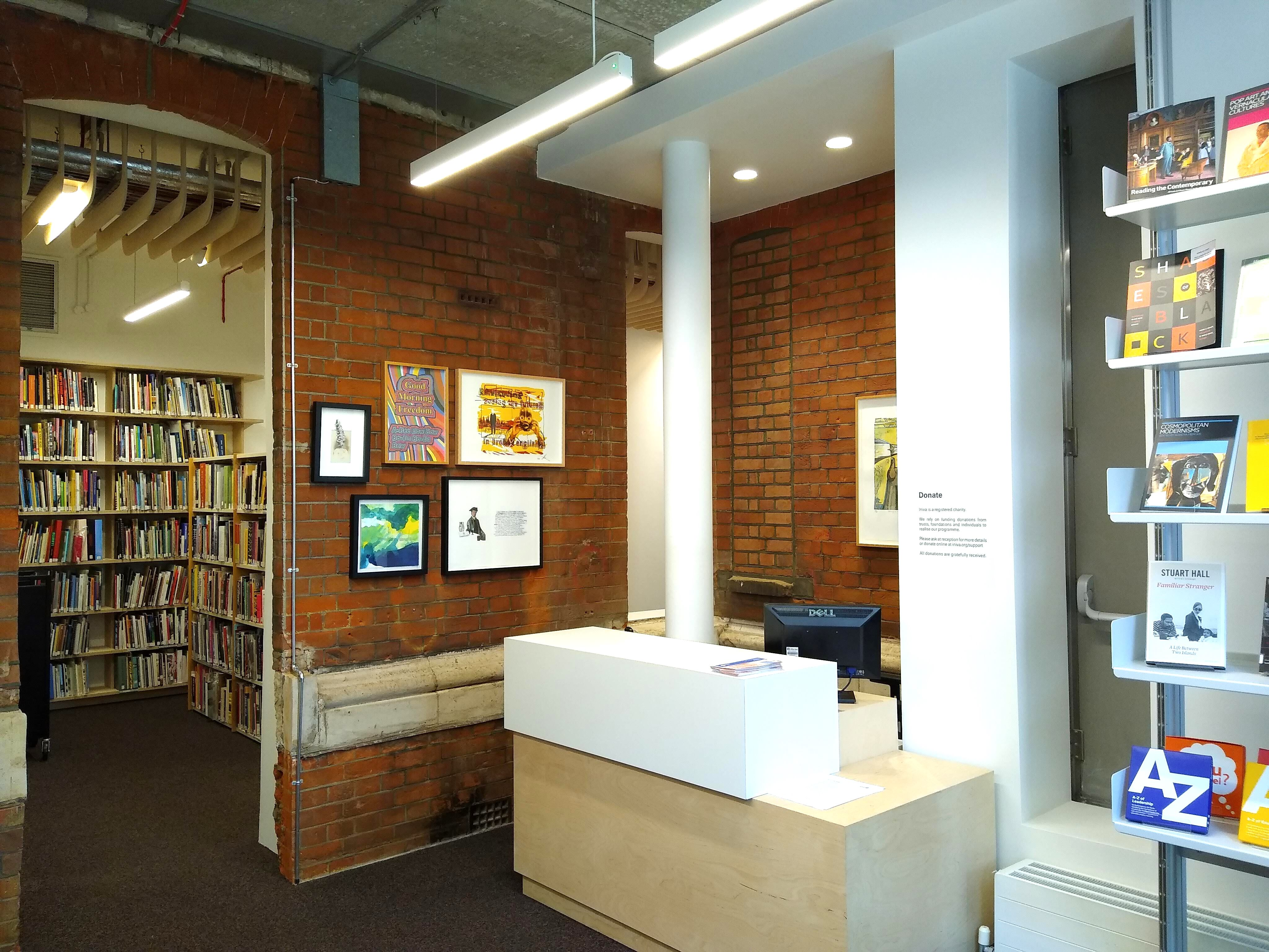 Reception Desk at Stuart Hall Library, Iniva